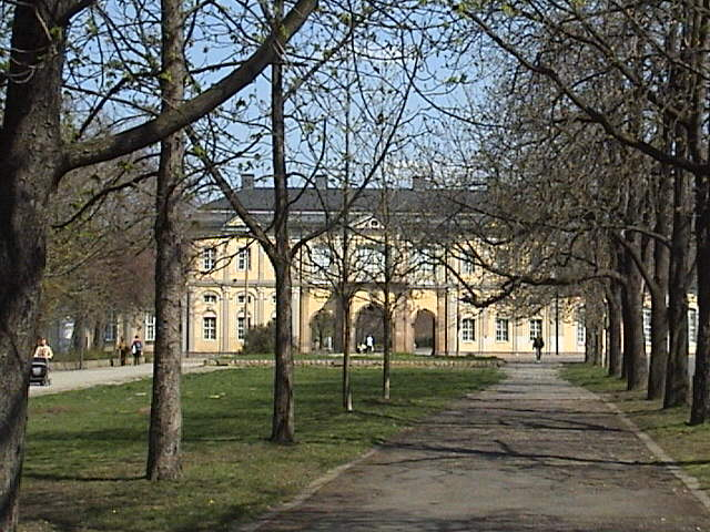 Gera, Germany: orangery